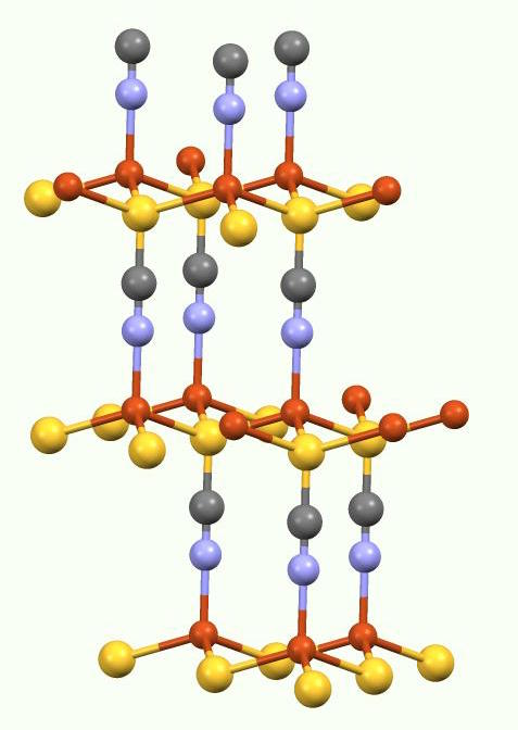 structure of one form of copper(I) thiocyanate